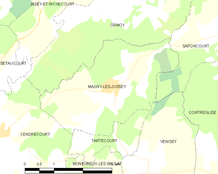 Map of French municipality